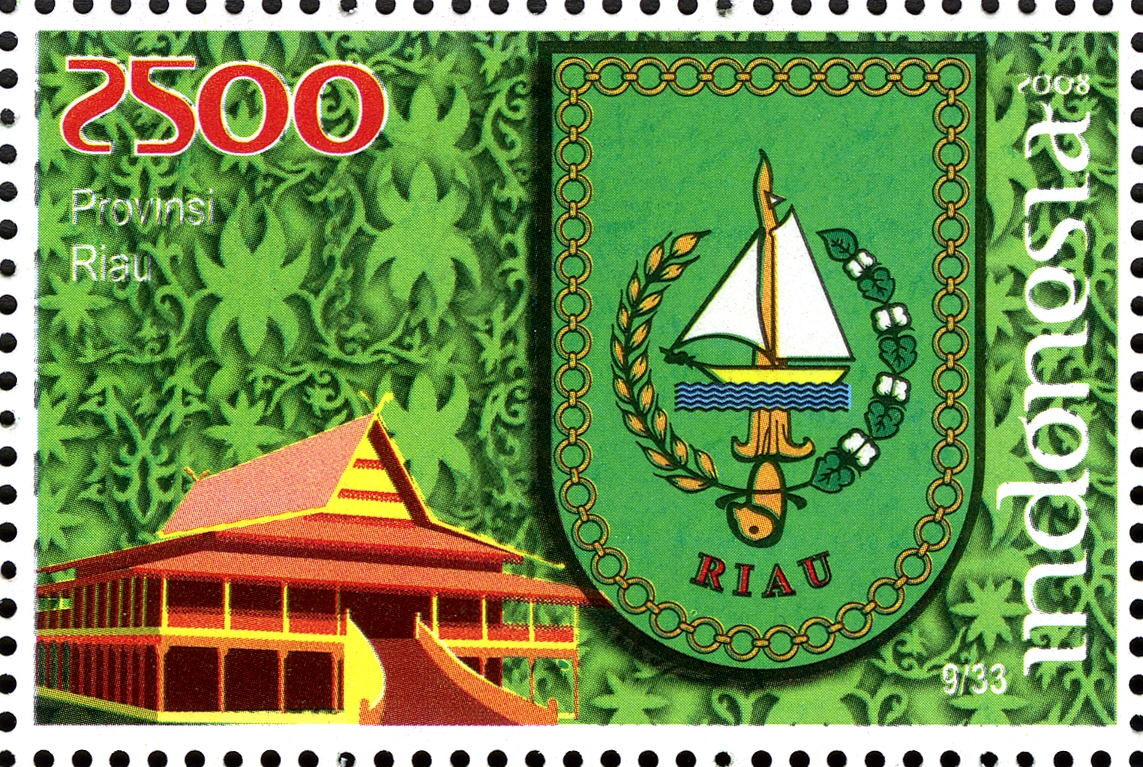 Stamps of Indonesia